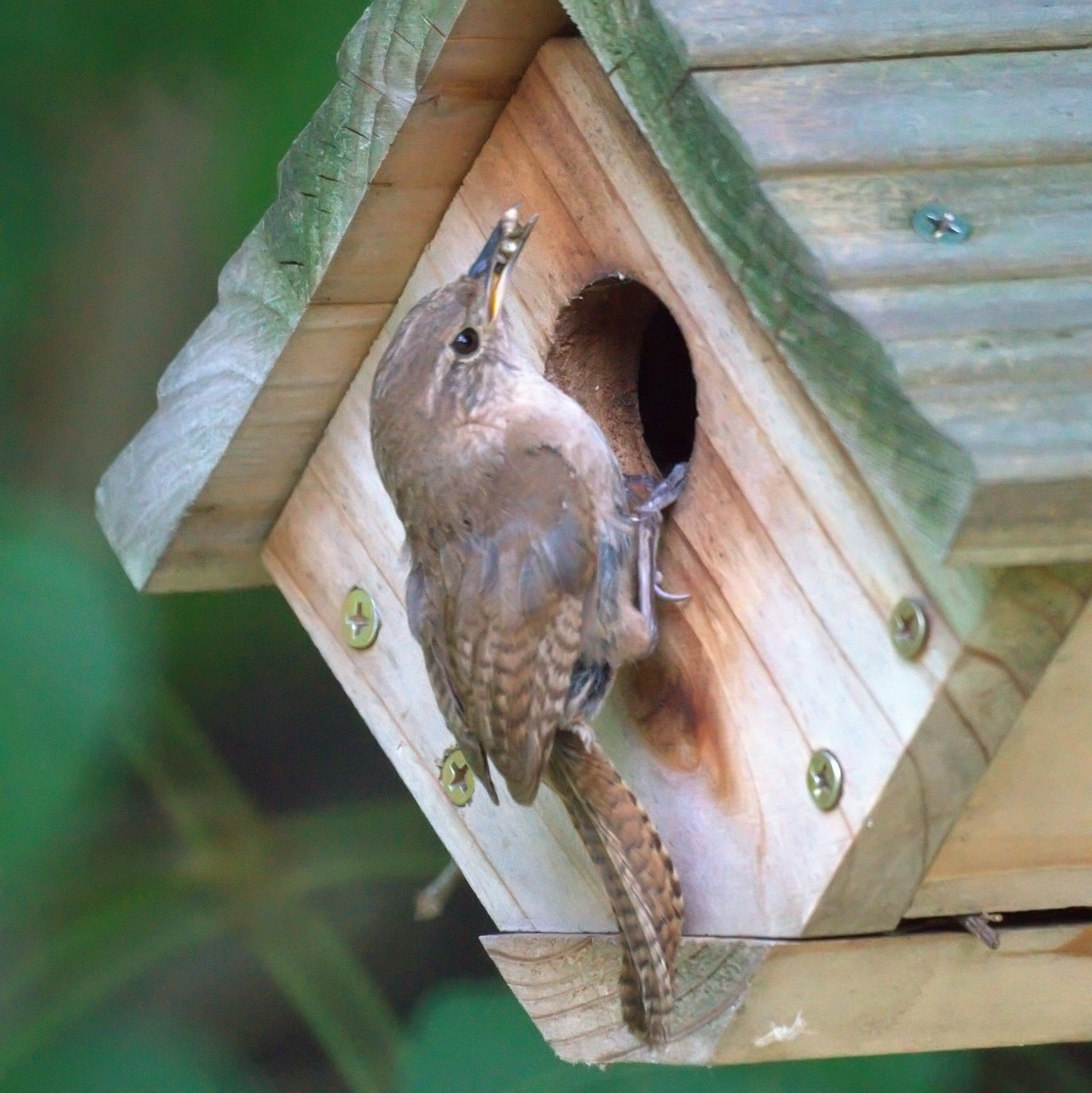 House Wren at Wren House